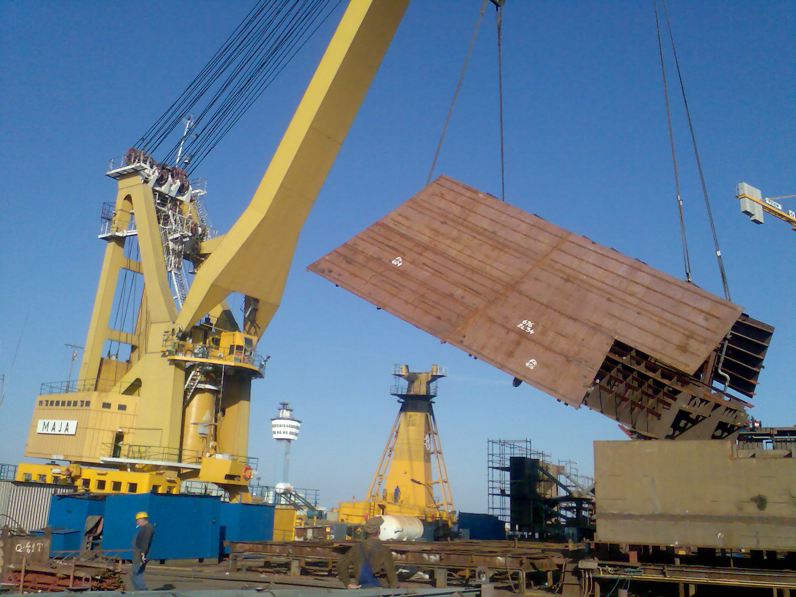 Maja during work in "Crist" Z-4 // Gdańsk-North Port Maja podczas pracy w zakładzie Z-4 firmy "Crist" w Gdańsku-Porcie Północnym